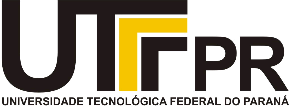 Logotipo da UTFPR